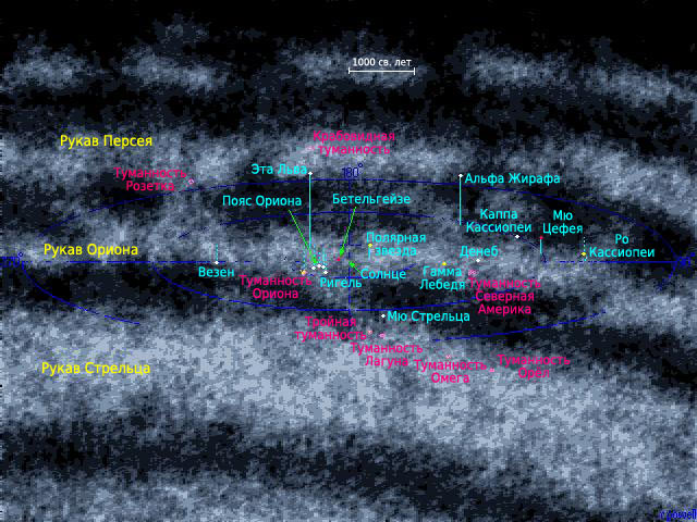 Map of the Orion Arm of the Milky Way